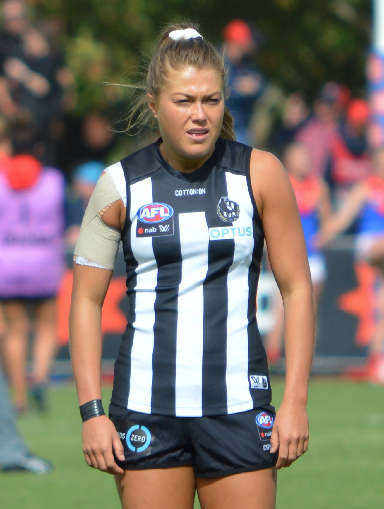 Sarah Rowe with Collingwood during a match against Melbourne at Victoria Park in round 2 of the 2019 AFL Women's season.